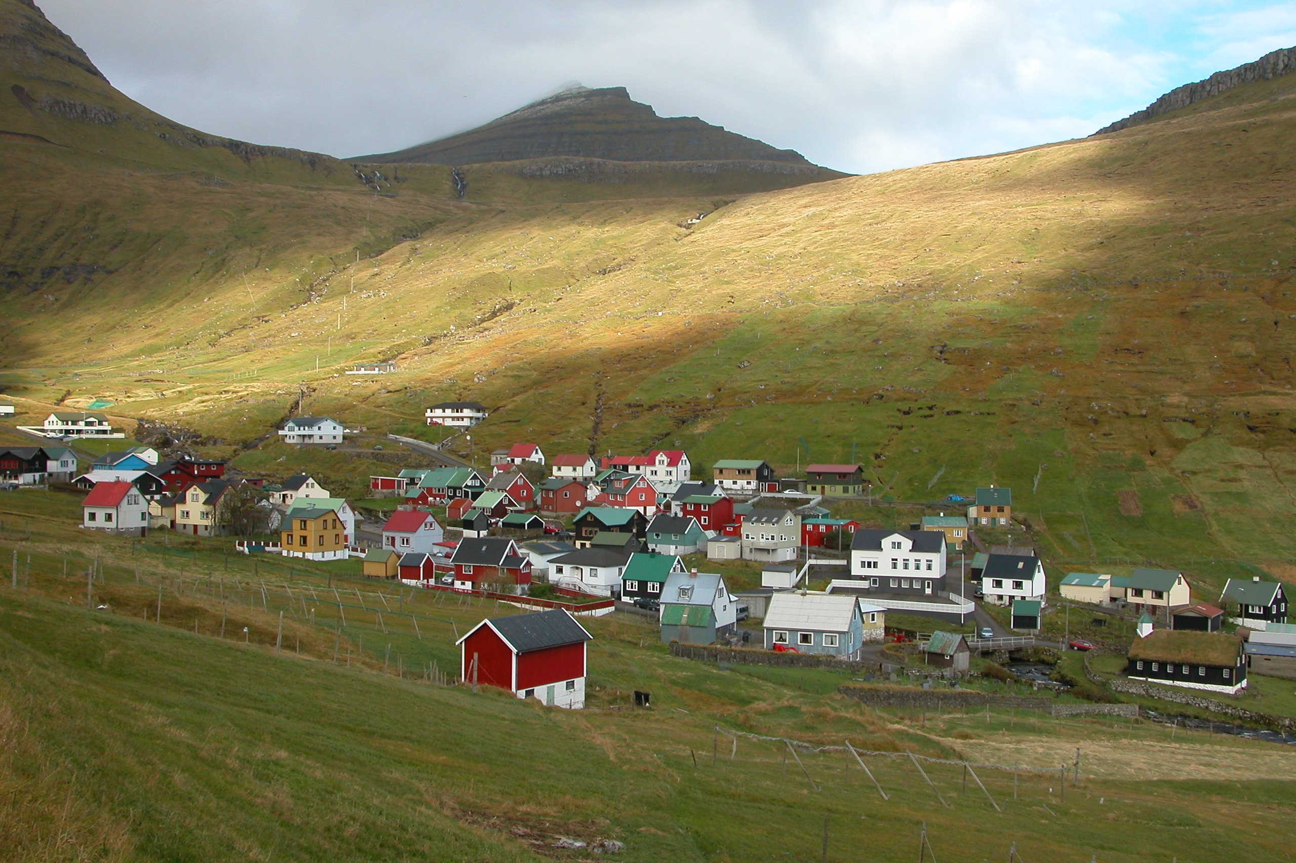 Funningur in Eysturoy, Faroe Islands.